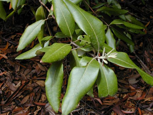 Photograph of the leaves of Syncarpia glomulifera. From According to " the photos are "copyright free".